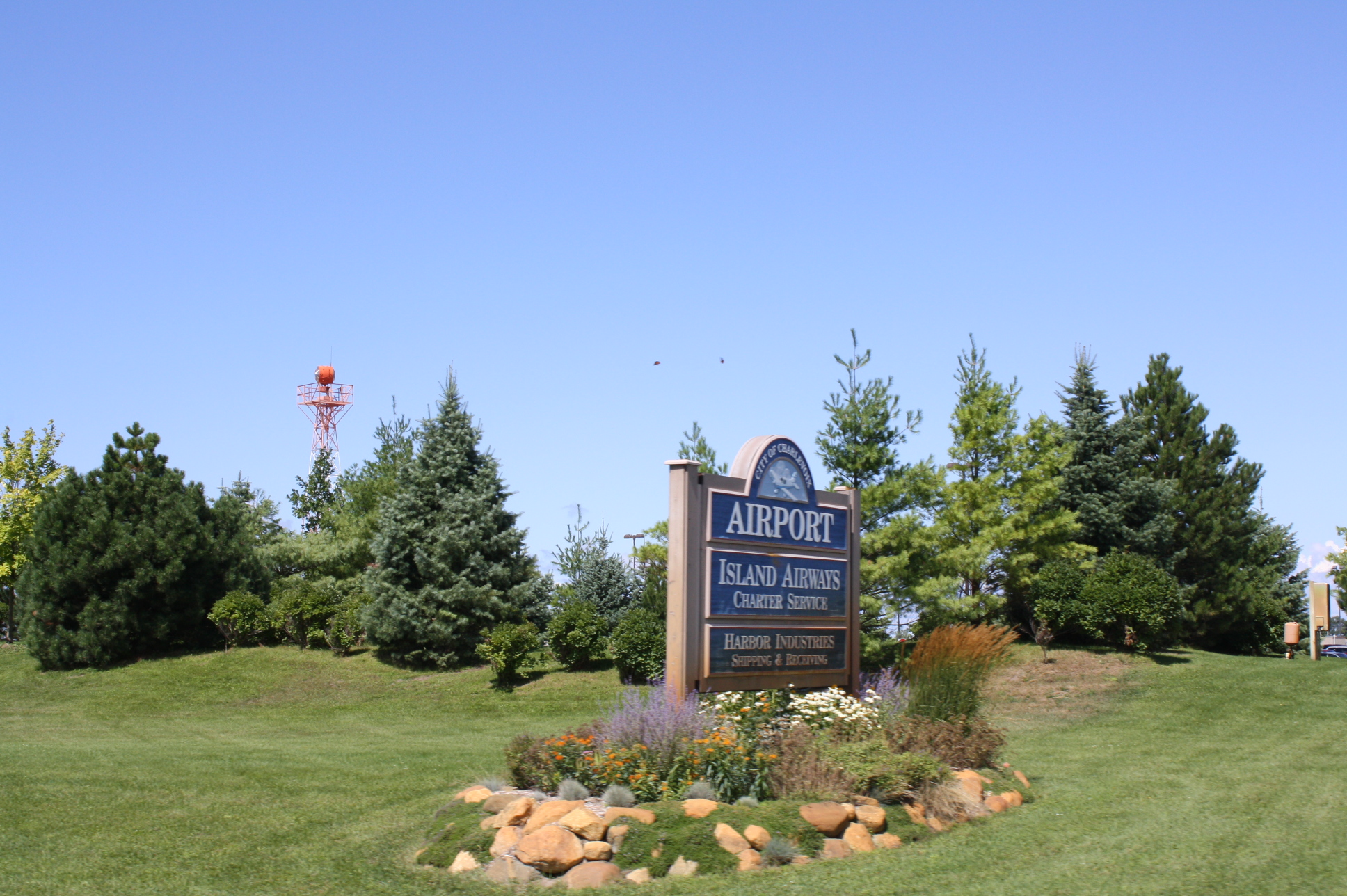 The sign for Charlevoix Airport on U.S. Route 31.